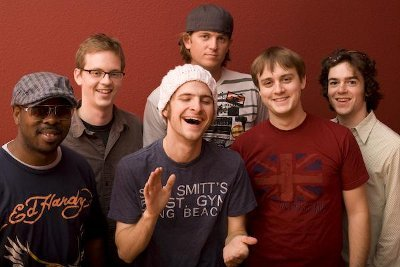 Group photograph of Snarky Puppy Photographed by Michal Garcia in Dallas, Texas 2007